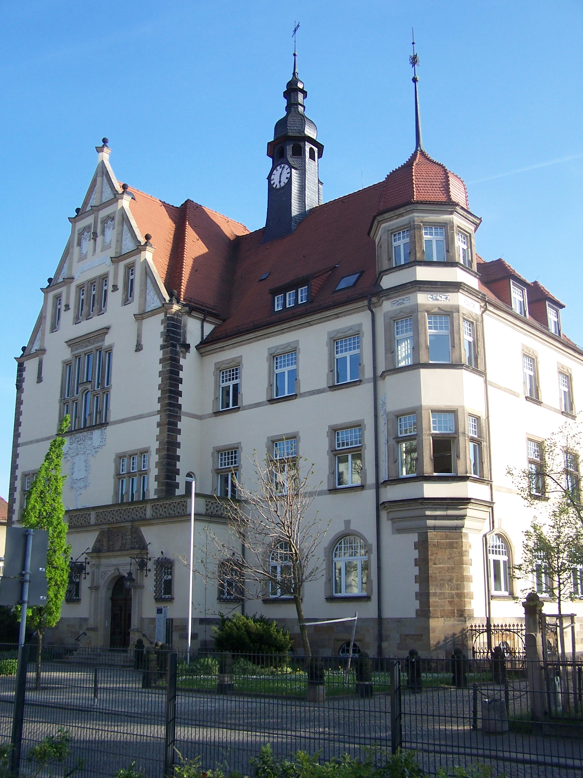 Rathaus in Radebeul / town hall of Radebeul, Germany